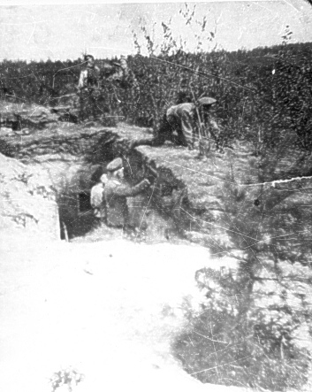 Russian troops at the Romanian front